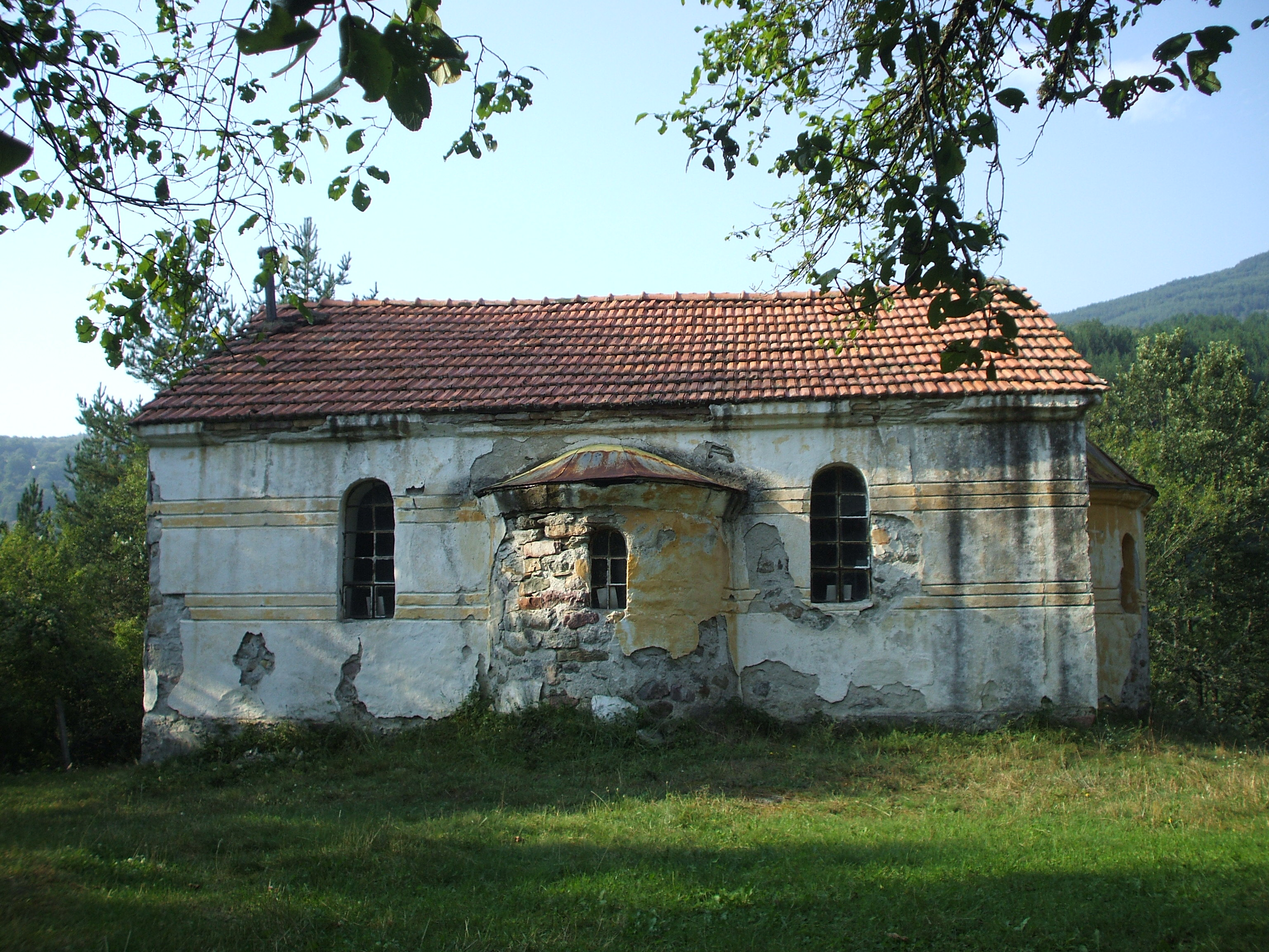 The old stone church in Leskovdol — Bulgaria.